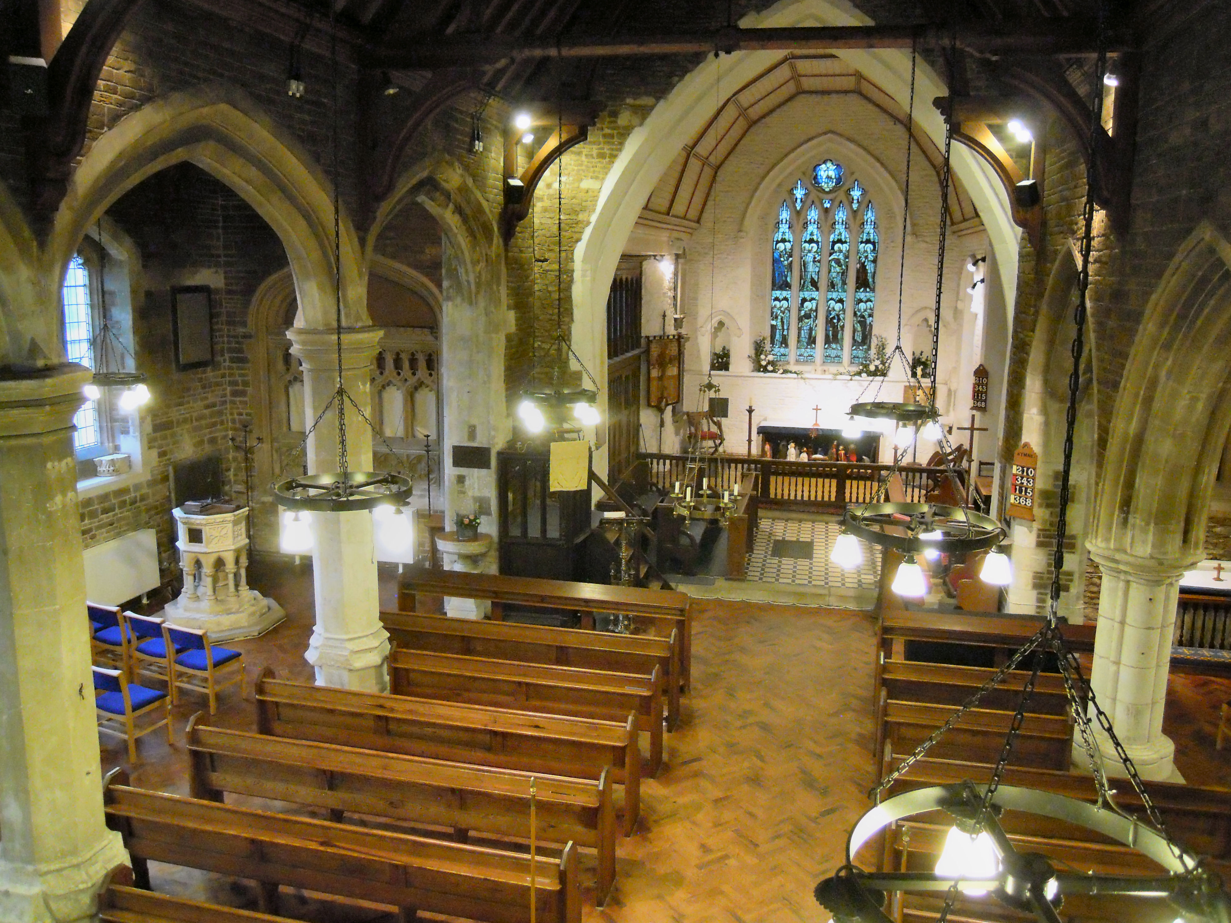 View of the nave at the Church of All Saints in Campton in Bedfordshire